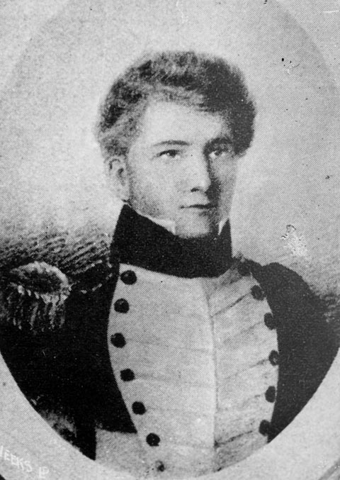 Drawing of Arthur Wakefield in uniform, held by the Nelson Provincial Museum. He was in New Zealand from 1841 until his death in 1843.